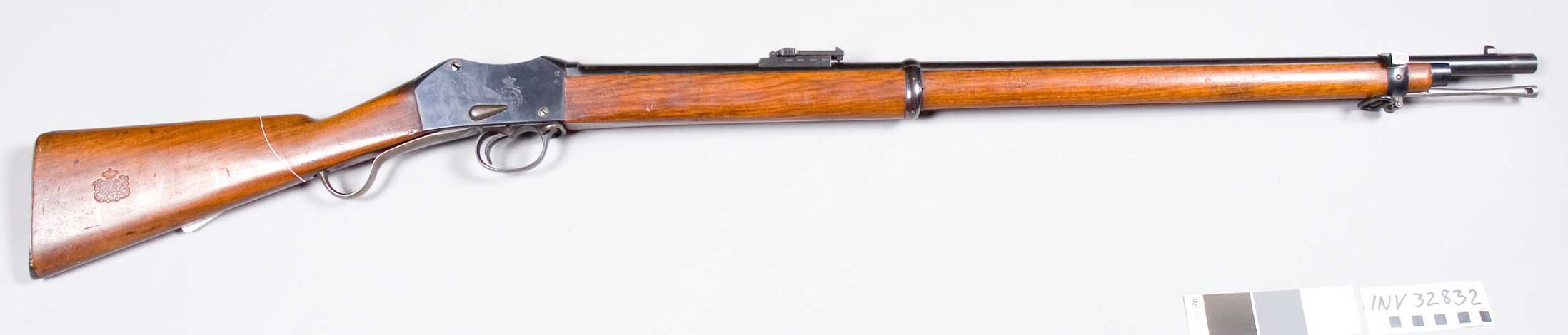 Martini-Henry rifle, model 1879. Romanian. From the collections of Armémuseum (Swedish Army Museum), Stockholm, Sweden.